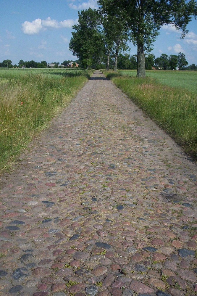 Cobblestoned road from Guzów to Oryszew (Masovia, Poland). It is 2.4 kilometres long.